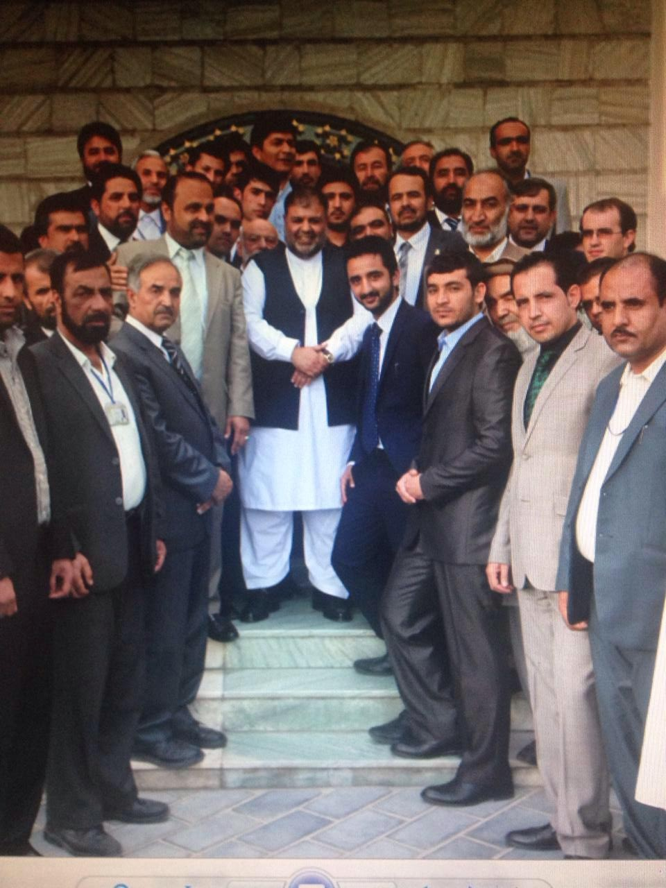 Abdul Karim Khurram, with staff while leaving office after new government established 2014.